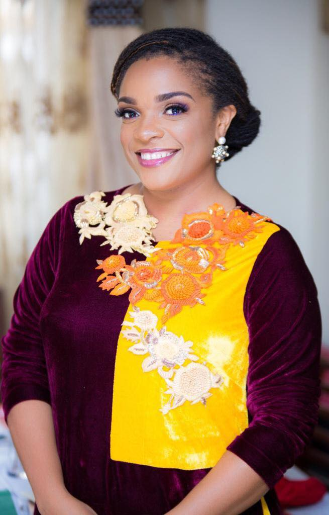 Ophelia Crossland is a fashion designer from Ghana